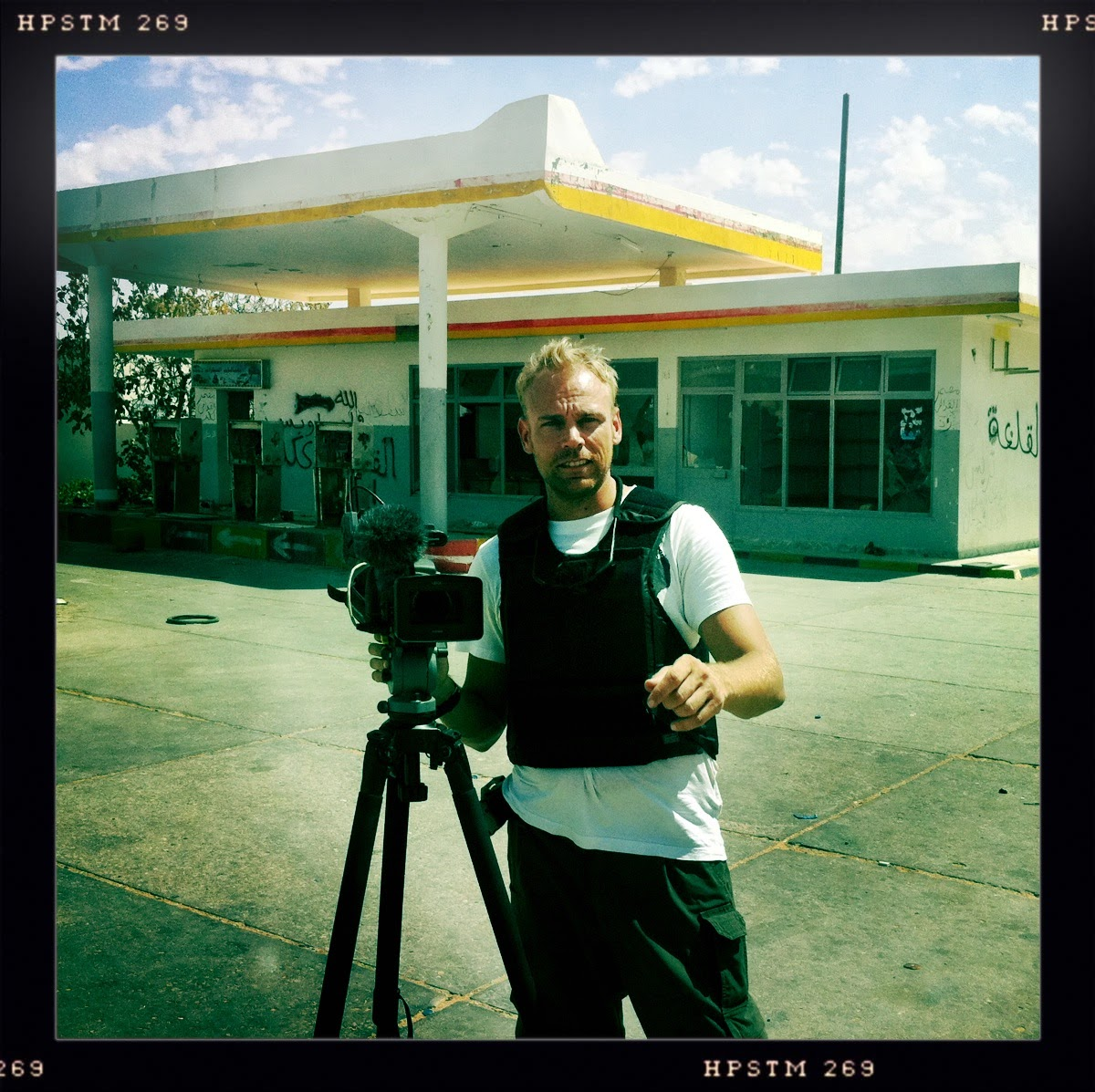 Libya 2011